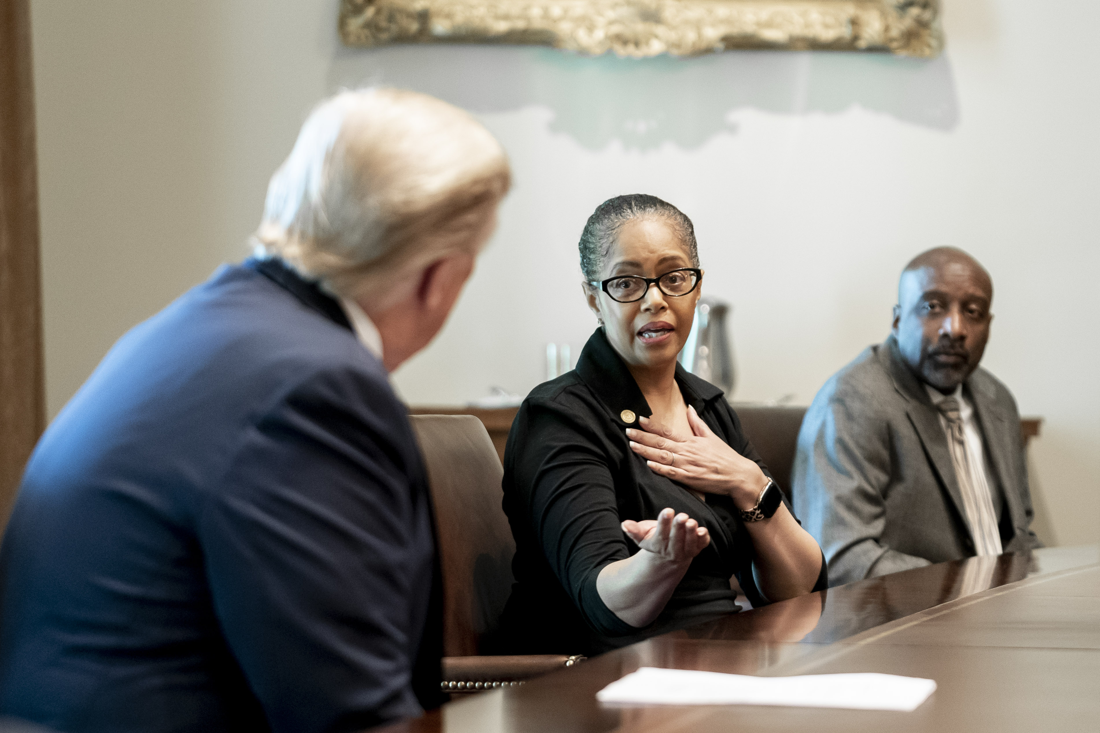 President Donald J. Trump listens as Michigan State Rep. Karen Whitsett talks about her recovery from the COVID-19 Coronavirus, Tuesday, April 14, 2020, in the Cabinet Room of the White House. (Official White House Photo by Andrea Hanks)